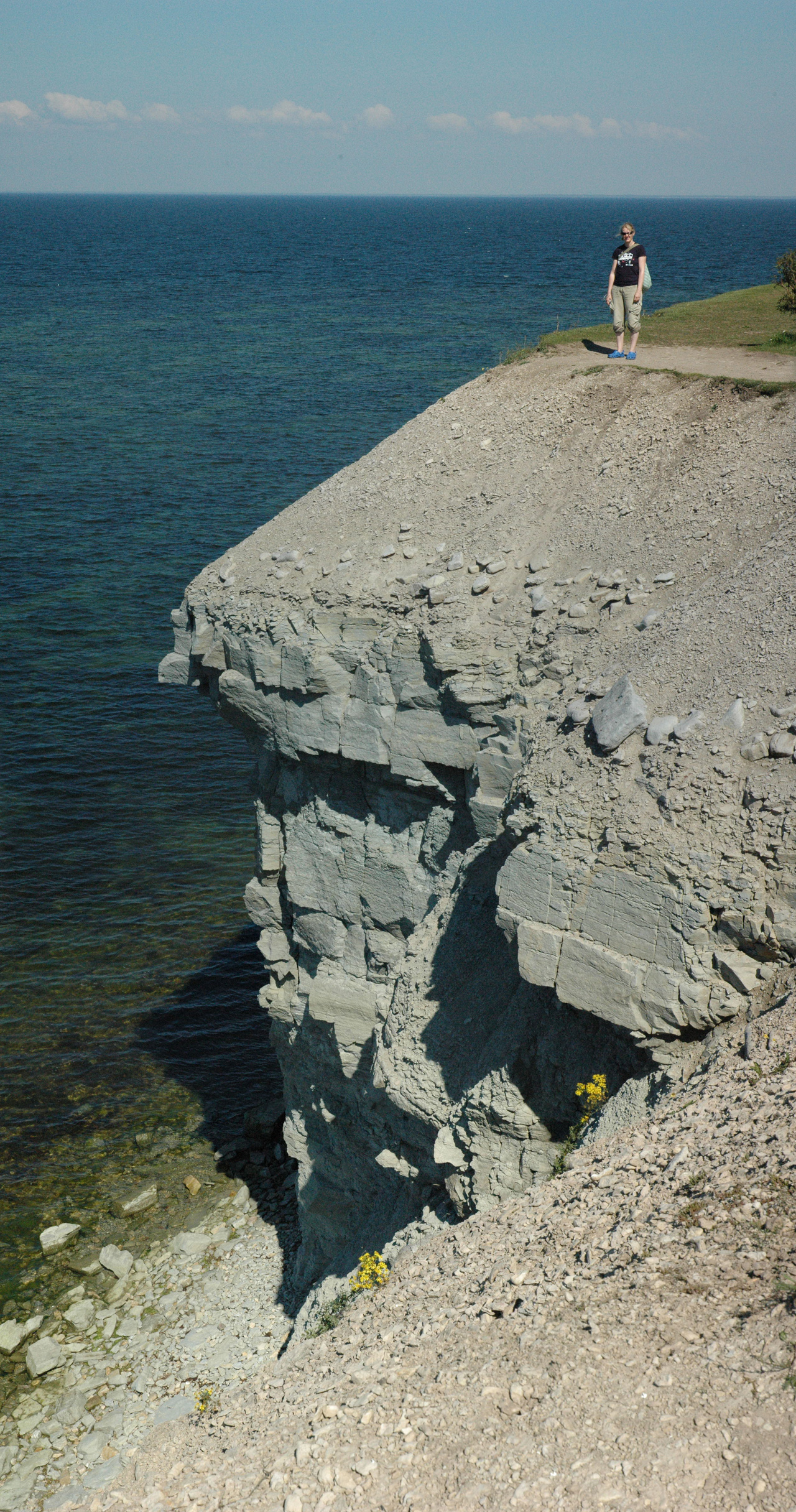 Panga cliff (est:Panga pank) near its highest point. You can just make out the edge of the shallow part of the see (approx 75 cm. deep) after which an underwater cliff drops some more.